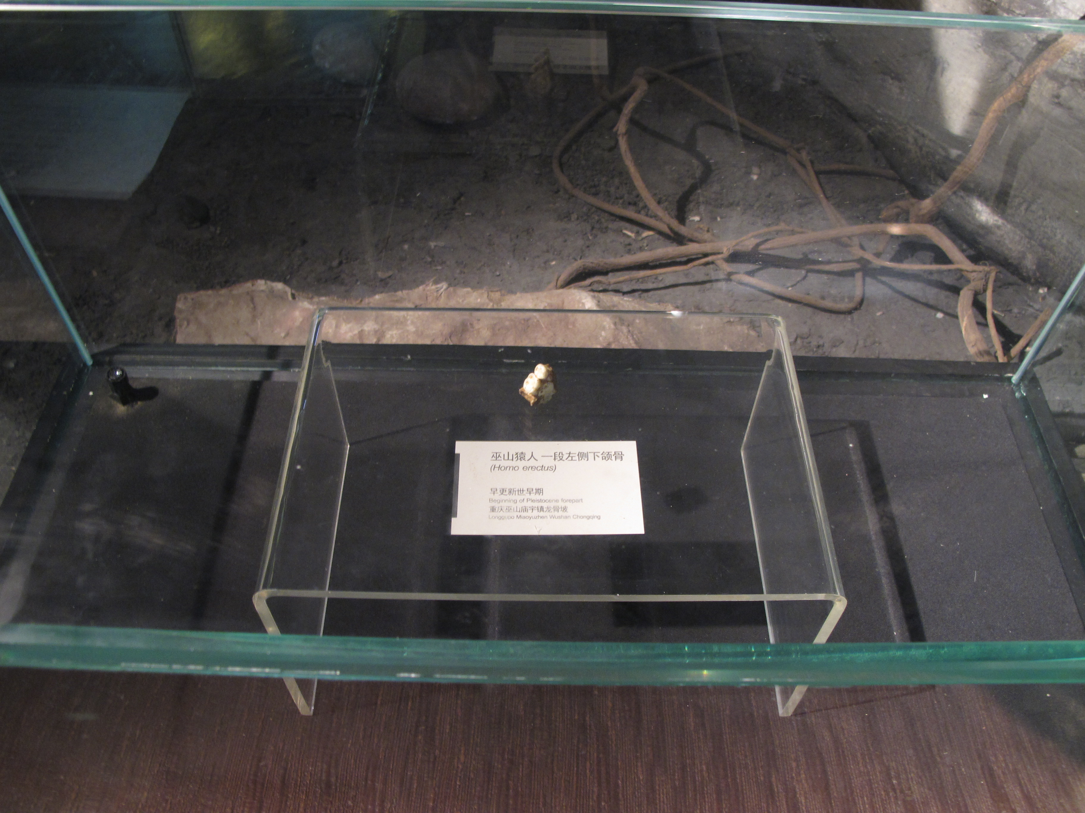 Homo erectus wushanensis - Chongqing Three Gorge Museum